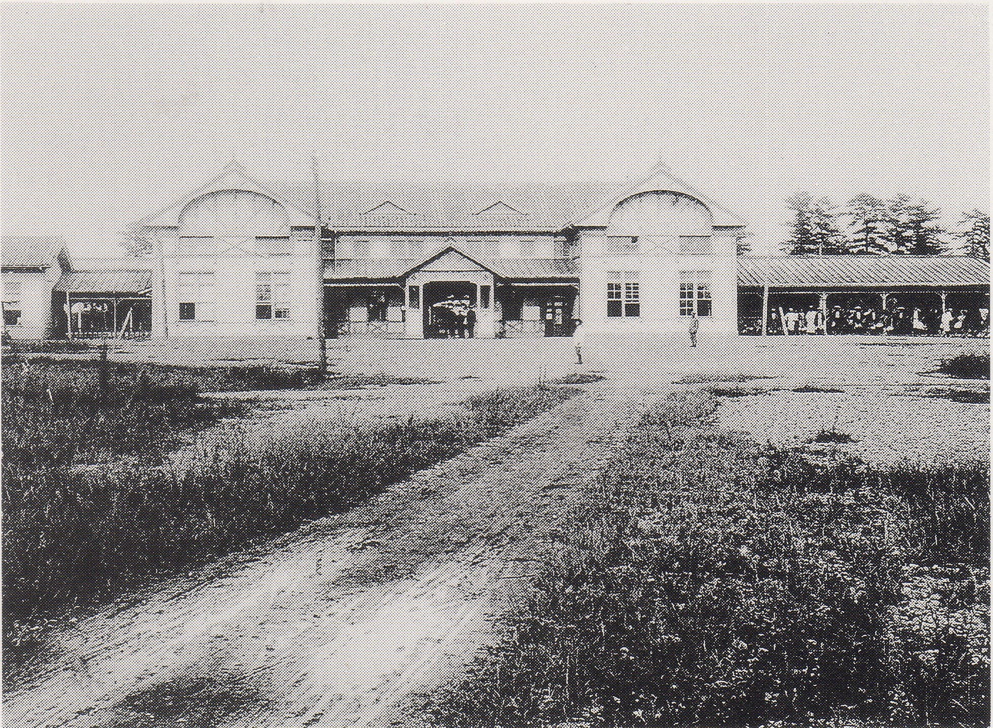 Miyazaki station taken around 1913. The station initially served for Miyazaki prefectural railway, and later became a station of Japanese Governmental Railway.